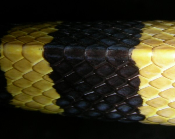 Banded Krait Bungarus fasciatus Daudin 1803 Photo of Banded Krait captured in Binnaguri, North Bengal, India on 19 Sep 2006. Note the following :- The triangular cross-section of the body. Black and yellow alternating bands. The enlarged vertebrals on the top edge of the body. The space between the scales is clearly visible and prominent in this species. Self-work. AshLin 20:30, 19 September 2006 (UTC)